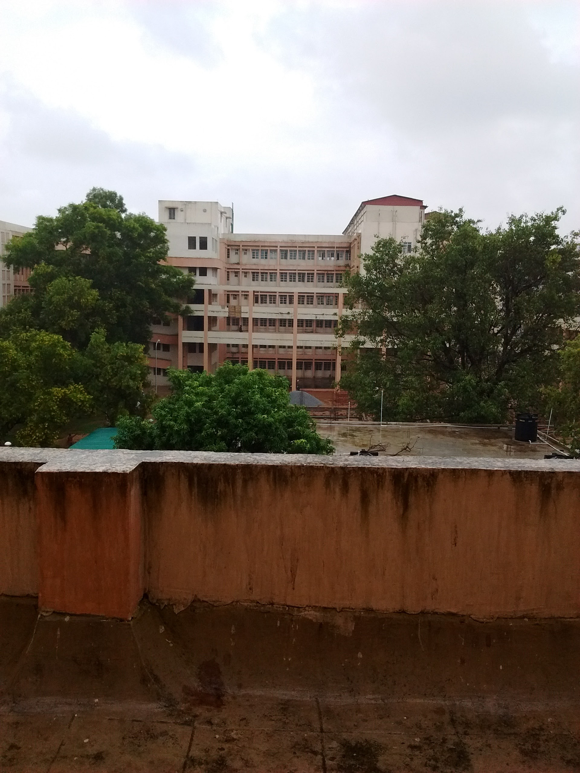 One of the newer buildings, Houses cardiology, CTVS, Urology and pediatric surgery department.